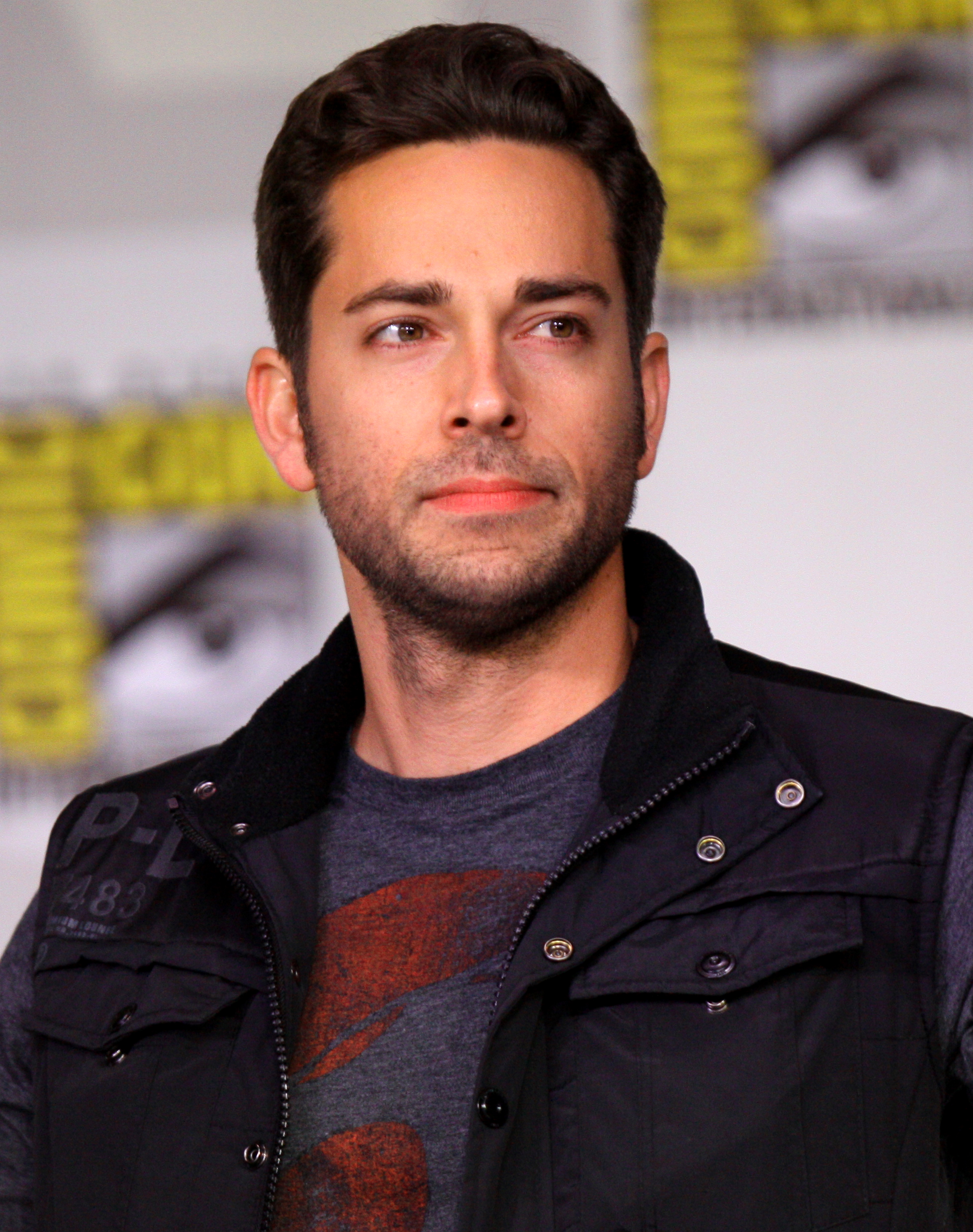 Zachary Levi at the 2011 Comic Con in San Diego